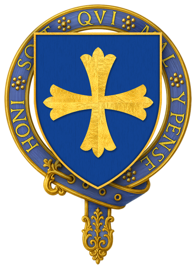 Coat of Arms of Sir Walter Paveley, KG “ Sir Walter Paveley, one of the Founders… Arms: Azure, a cross flory Or. ” BELTZ, George Frederick, Memorials of the Order of the Garter from Its Foundation to the Present Time, London: William Pickering, 1841. “ Sir Walter Paveley, one of the First Founders… azure a cross paty gold. ” ST. JOHN HOPE, W. H., The Stall Plates of the Knights of the Order of the Garter 1348 – 1485: A Series of Ninety Full-Sized Coloured Facsimiles with Descriptive Notes and Historical Introductions, Westminster: Archibald Constable and Company LTD, 1901.